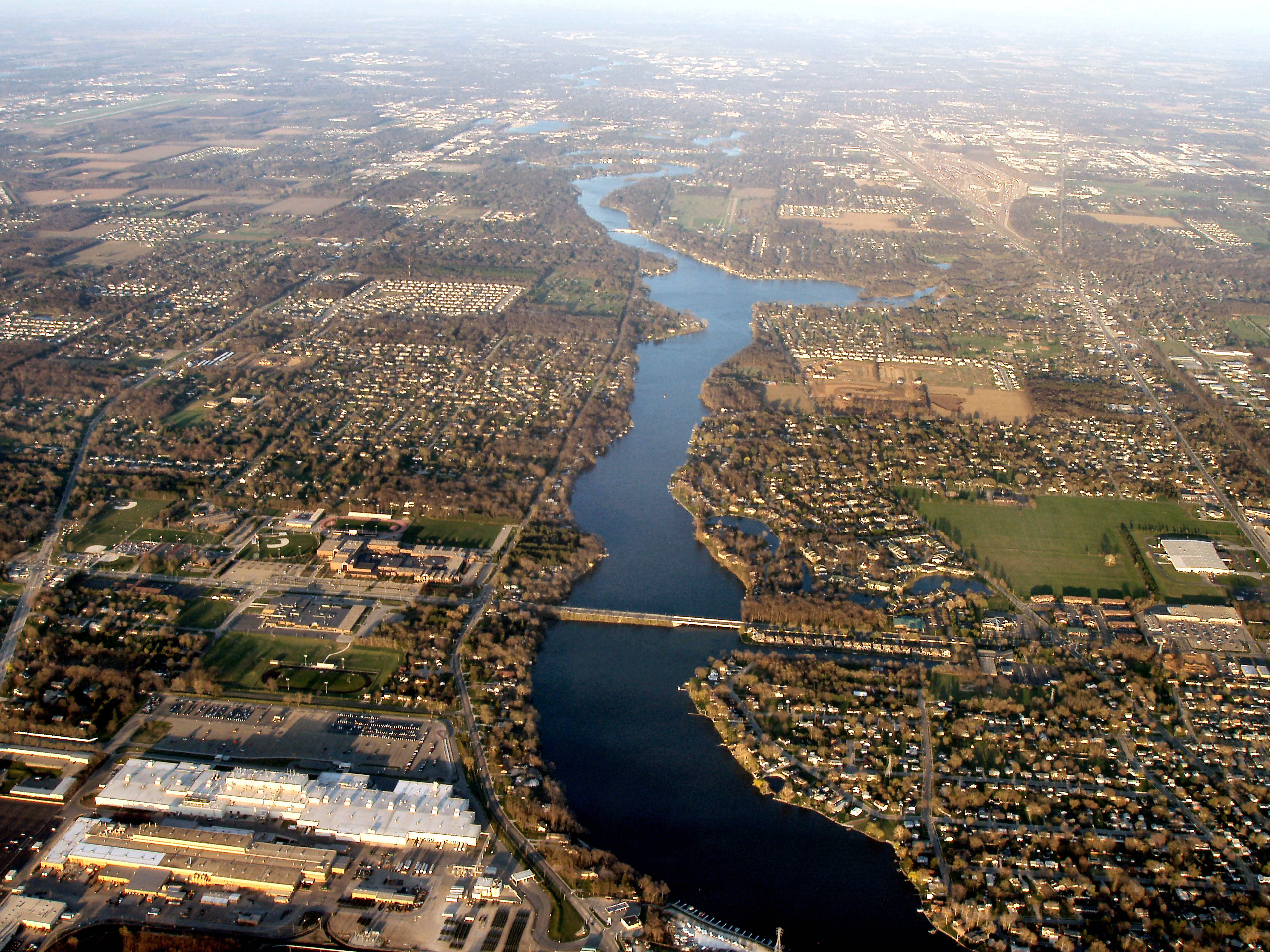 East side of Mishawaka, Indiana, with the St. Joe River flowing from Osceola. In the lower left is the AM General Hummer plant and Penn High School. In the upper right is Baugo Bay. Elkhart is in the distance. Photo by Derek Jensen (Tysto), 2005-April-14